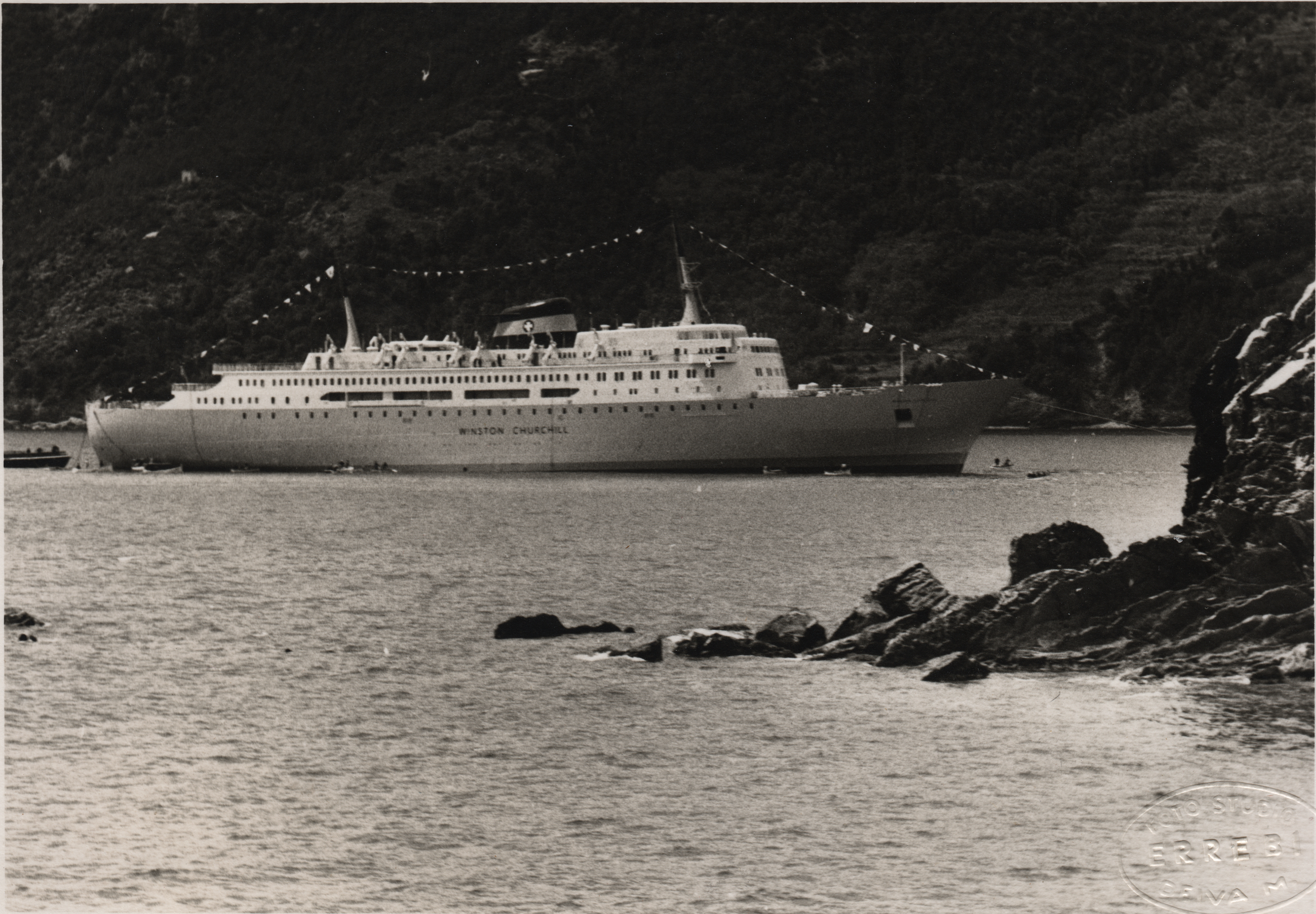 Launch on 25/04/1967. Photo taken from Via Giovanni Battista da Ponzerone, Lat 44°15'N, Lon9°26'E